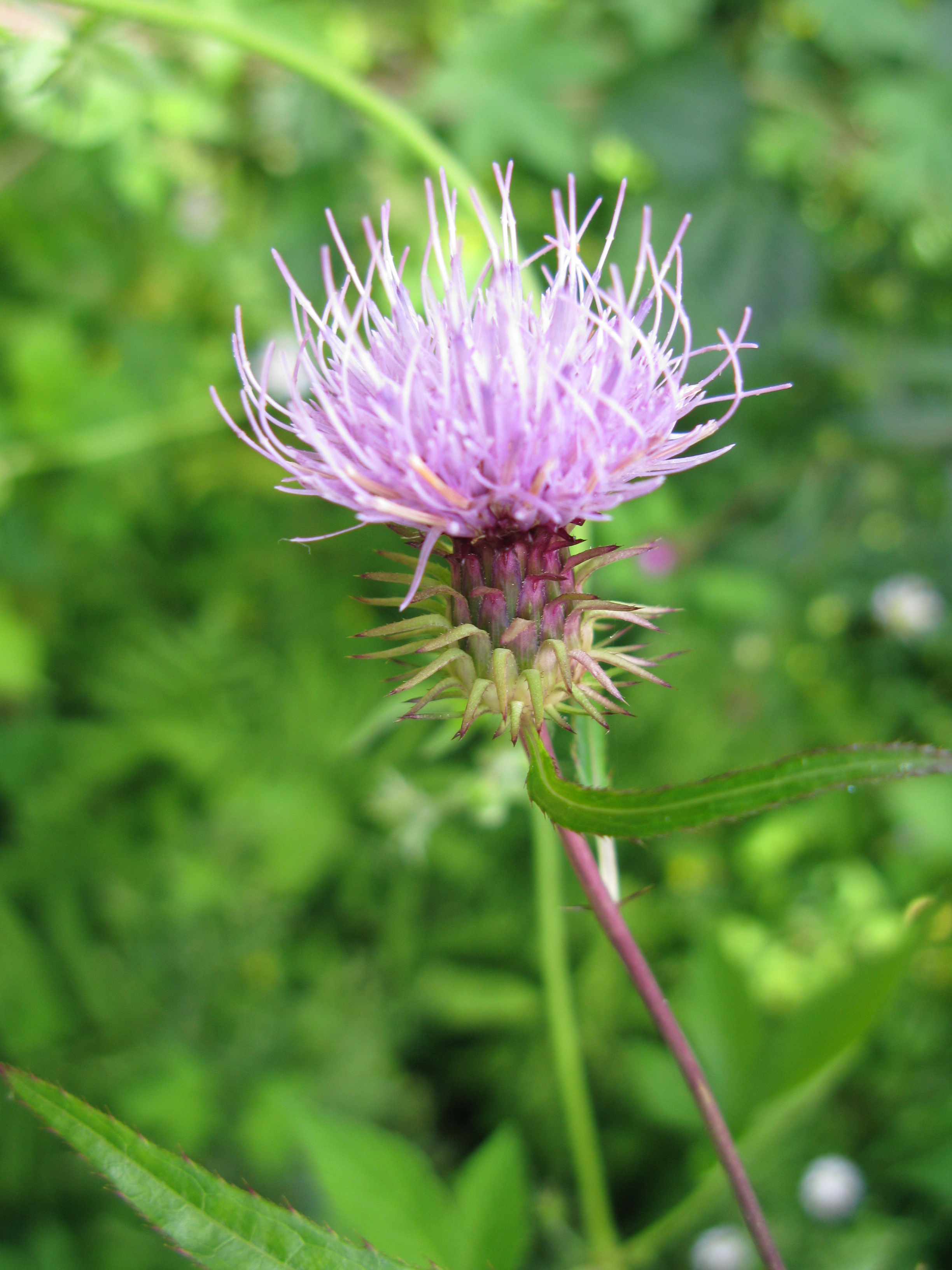 Cirsium amplexifolium,Yamagata City Wild Plants Garden, Yamagata pref., Japan